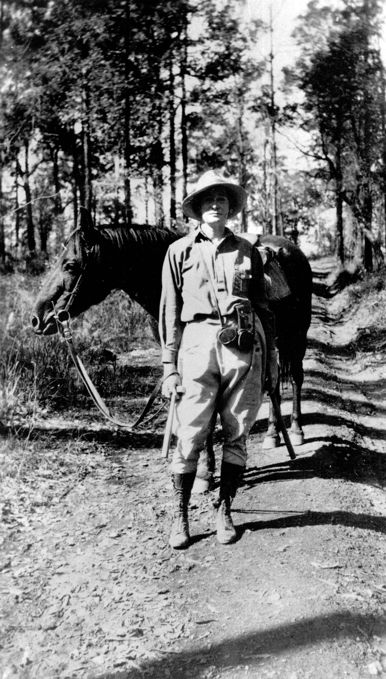 Dorothy Hill on geological excursions in the Brisbane Valley, 1928-1929.